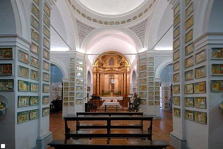 oooooooooooooooooooooouuuuuuuuuu